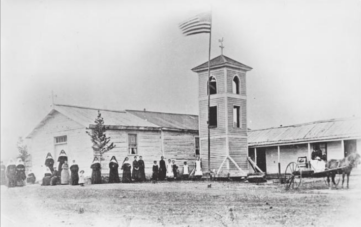 St. Peter's Mission near Cascade, Montana, in the United States, in 1884 shortly after its founding. St. Peter's was founded by priests belonging to the Society of Jesus (the Jesuits), a Roman Catholic men's religious order. It was established at Bird Tail Rock in 1871 after several previous locations were abandoned. Ursuline nuns joined the mission in October 1884 to assist in running the mission and teaching Native American children. In 1884, the mission consisted of two log buildings -- a chapel with a bell tower connected to a common sleeping area for priests, and a lower structure which consisted of a sleeping area for nuns and a kitchen. Depicted here are several of the Ursuline nuns with some Native American children/students. In the wagon at the right is Mary Fields, also known as "Stagecoach Mary", a former African American slave who came to the mission in 1885 to nurse one of the Ursulines. She stayed at the mission until 1894.